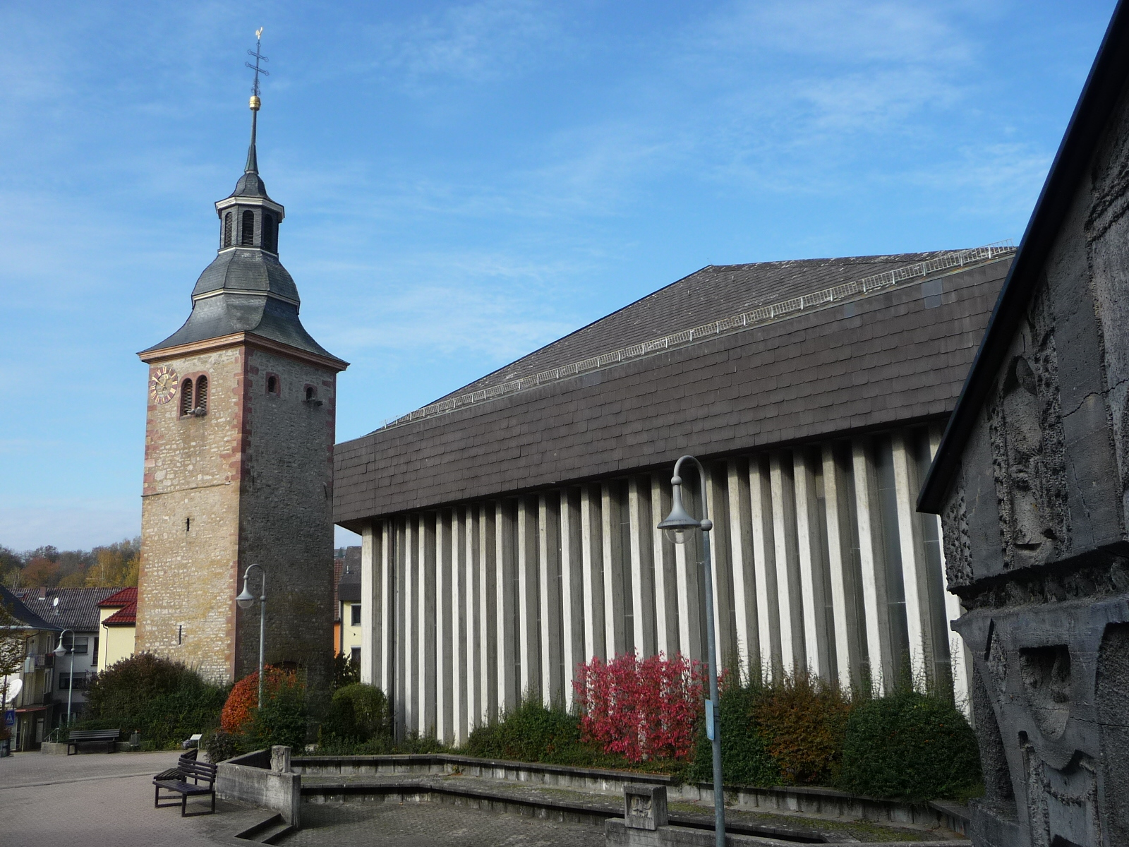 Kilianskirche Osterburken